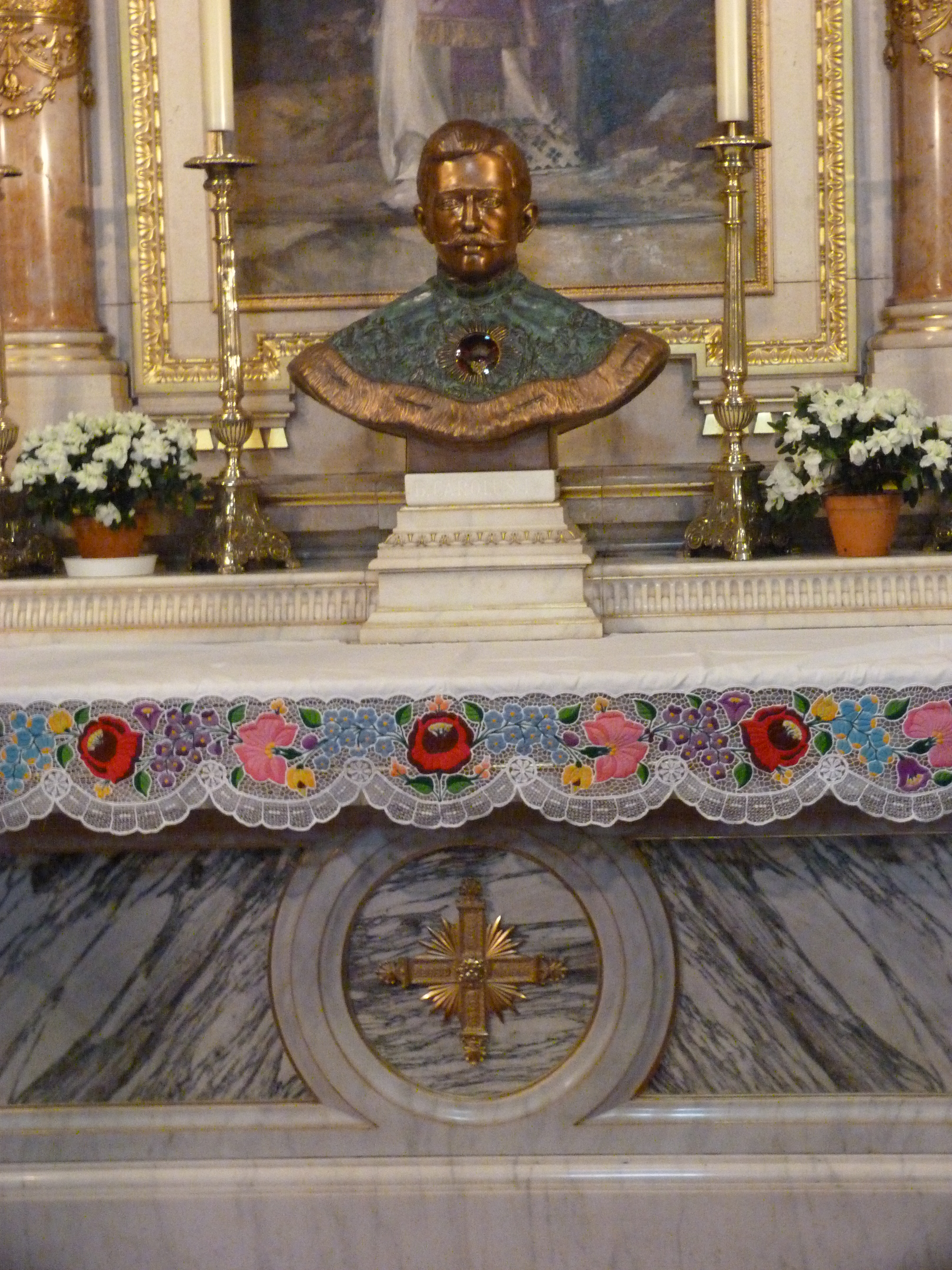 Live on the 1st of April, 2013. The sanctification of the herm of IV. Károly, hungarian king. Bazilika, Budapest, Magyarország. ©© Derzsi Elekes Andor, Budapest, 2013, You are authorised to use these photos and vids under Creative Commons – even for commercial, for profit purposes. Photos must be attributed to Derzsi Elekes Andor. All of the photos and vids in the Metapolisz DVD line are under Creative Commons and can be used even for commercial – for profit – purposes. Recommended Citation Derzsi Elekes Andor: Metapolisz DVD line A felvételek 2013. Április hó 1 –én készültek Budapesten, a Bazilikában. IV. Károly, magyar király hermájának megszentelése. A 10 órai plébániai nagymisét követően ünnepélyesen elhelyezték a hermát. Két teljes bordacsontot emeltek ki IV. Károly madeirai koporsójából. Ezekből 300 apró csonszilánkot tégelyekbe foglaltak, ezeket osztották ki – többek között – Magyarország számos vidéki városába. Budapest két nagyméretű csontrészt kapott. Kb. 9 cm-es annak a két hátsó bordarésznek a fesztávolsága, mely a Szent István Bazilika és a budavári Nagyboldogasszony Koronázó Főtemplom tulajdona lett. A Babusa János szobrászműhelyében készült hermát a Szent Adalbert oltáron helyezték el. Források: Károly király hermája a Bazilikában Magyarok Fénye – A Szent István Bazilika Plébánia lapja XX. Évfolyam 1. Szám 2013. Húsvét Meghívó: Meghívó és Emléklap Ünnepi emlékmise 2013. Április 1. 10.00 óra Szent István Bazilika, Budapest Boldog IV.Károly, utolsó apostoli királyunk Hermájának és ereklyéjének elhelyezése IV.Károly visszatérési kisérletei Címkék: IV. Károly király Bazilika Budapest Babusa János Károly Király Imaliga